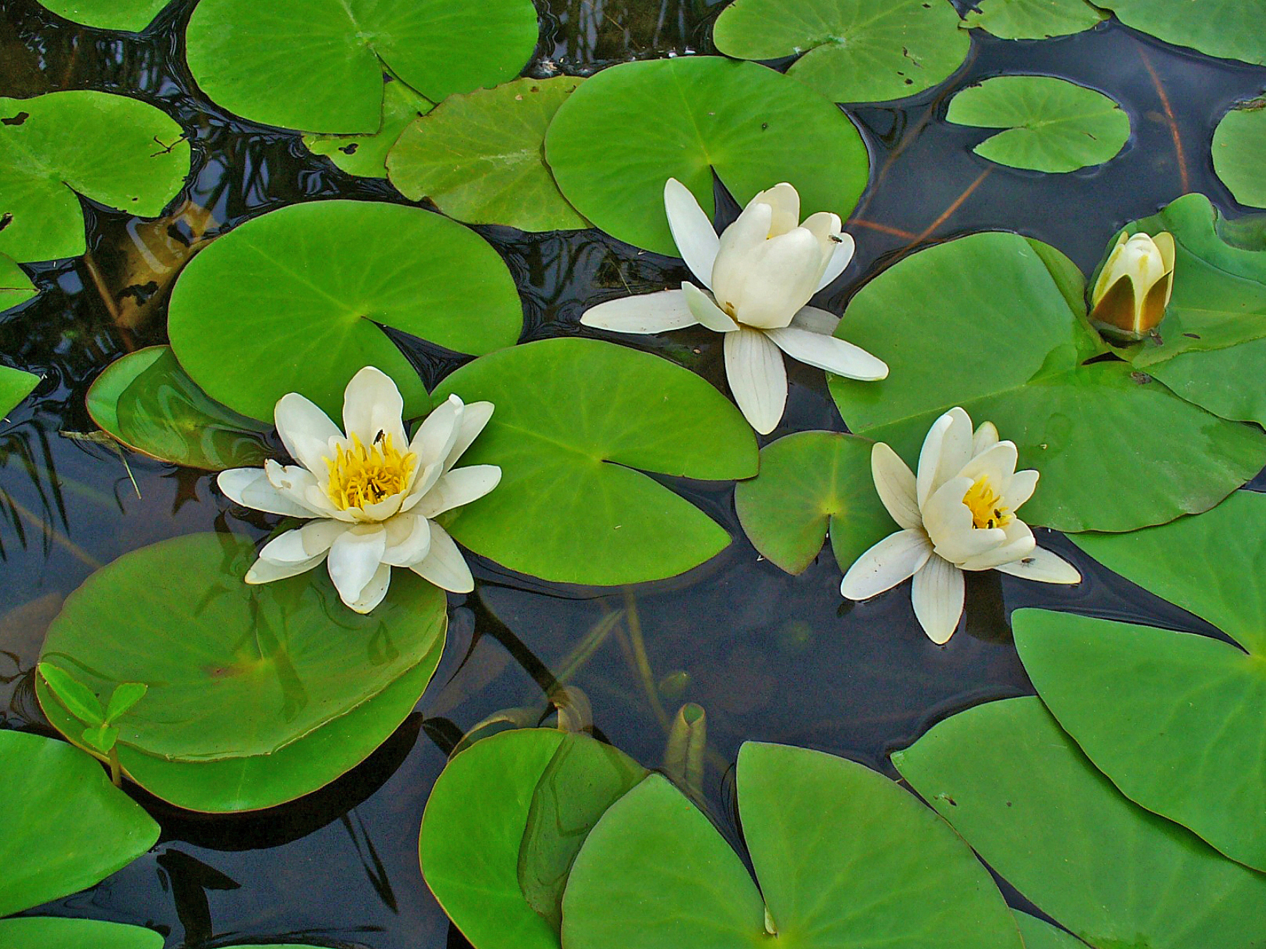 Nymphaea alba, Nymphaeaceae, European White Waterlily, White Lotus, flowers.